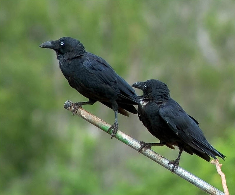 Torresian Crows